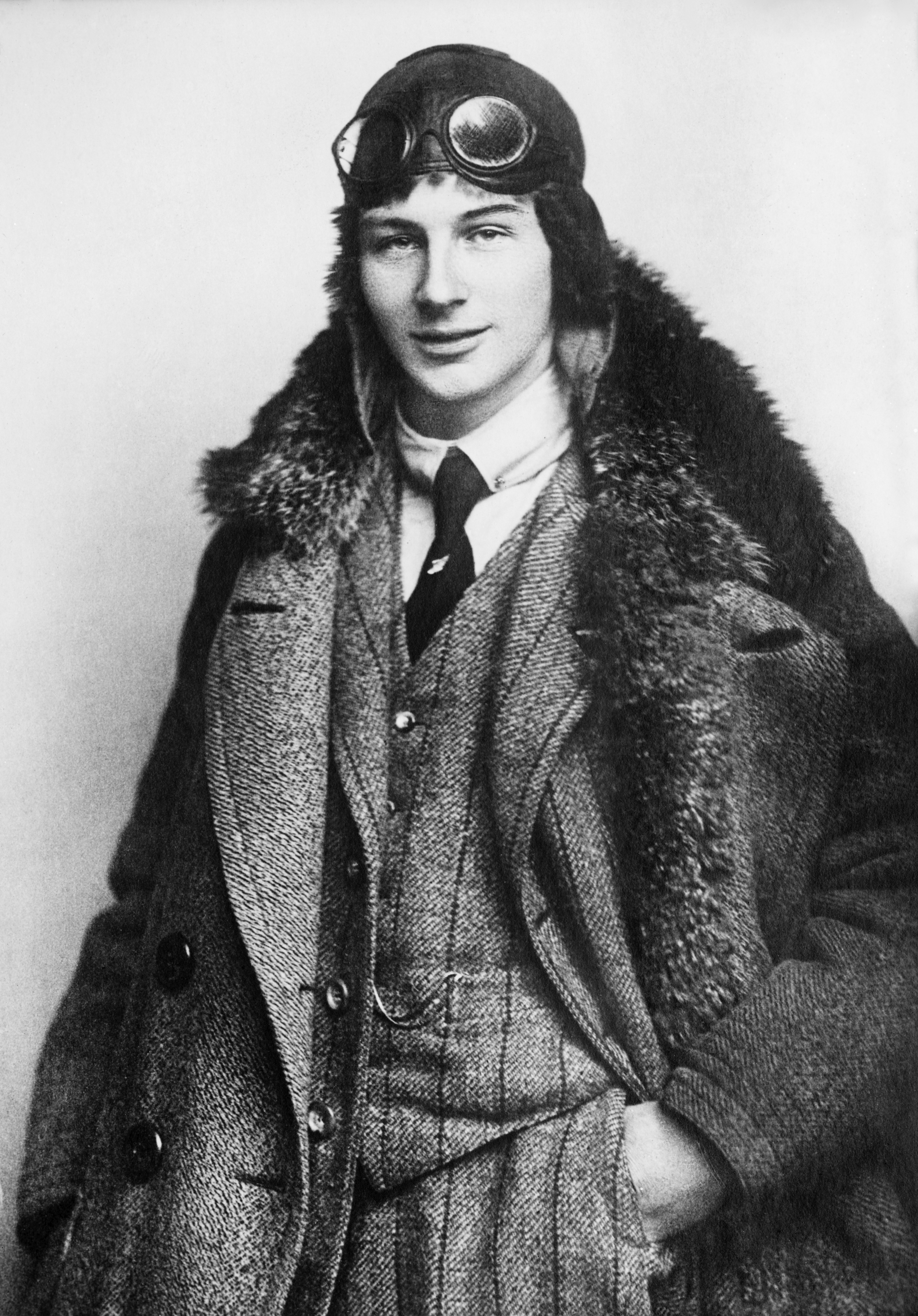 Portrait of Anthony Fokker.